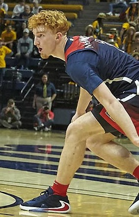 University of California Golden Bears hosted University of Arizona Wildcats, Pac-12, Mens Basketball, Haas Pavilion, Berkeley, CA